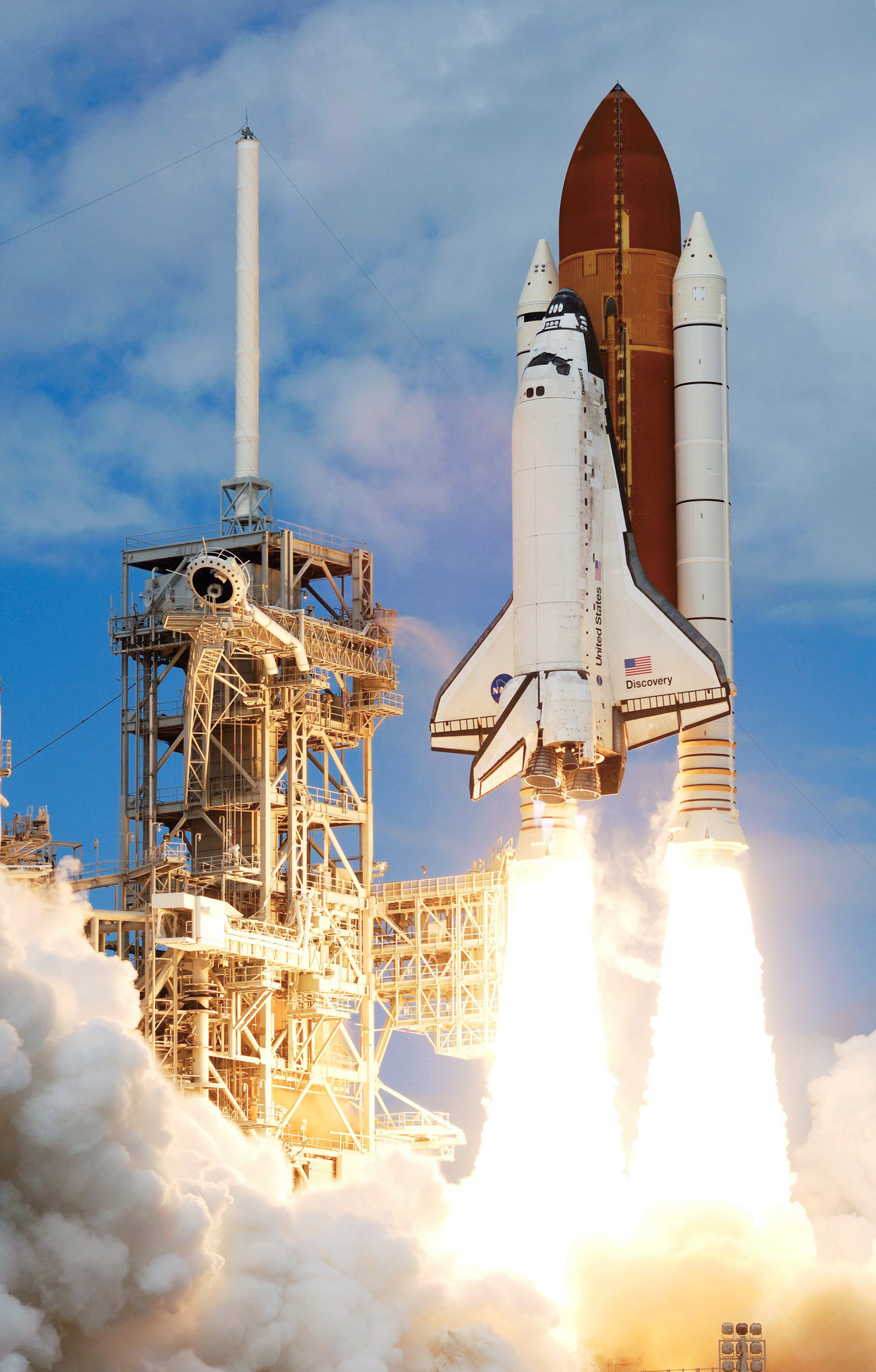 The Space Shuttle Discovery and its seven-member STS-120 crew head toward Earth-orbit and a scheduled link-up with the International Space Station. Liftoff from Kennedy Space Center's launch pad 39A occurred at 11:38:19 a.m. (EDT). Onboard are astronauts Pam Melroy, commander; George Zamka, pilot; Scott Parazynski, Stephanie Wilson, Doug Wheelock, European Space Agency's (ESA) Paolo Nespoli and Daniel Tani, all mission specialists.